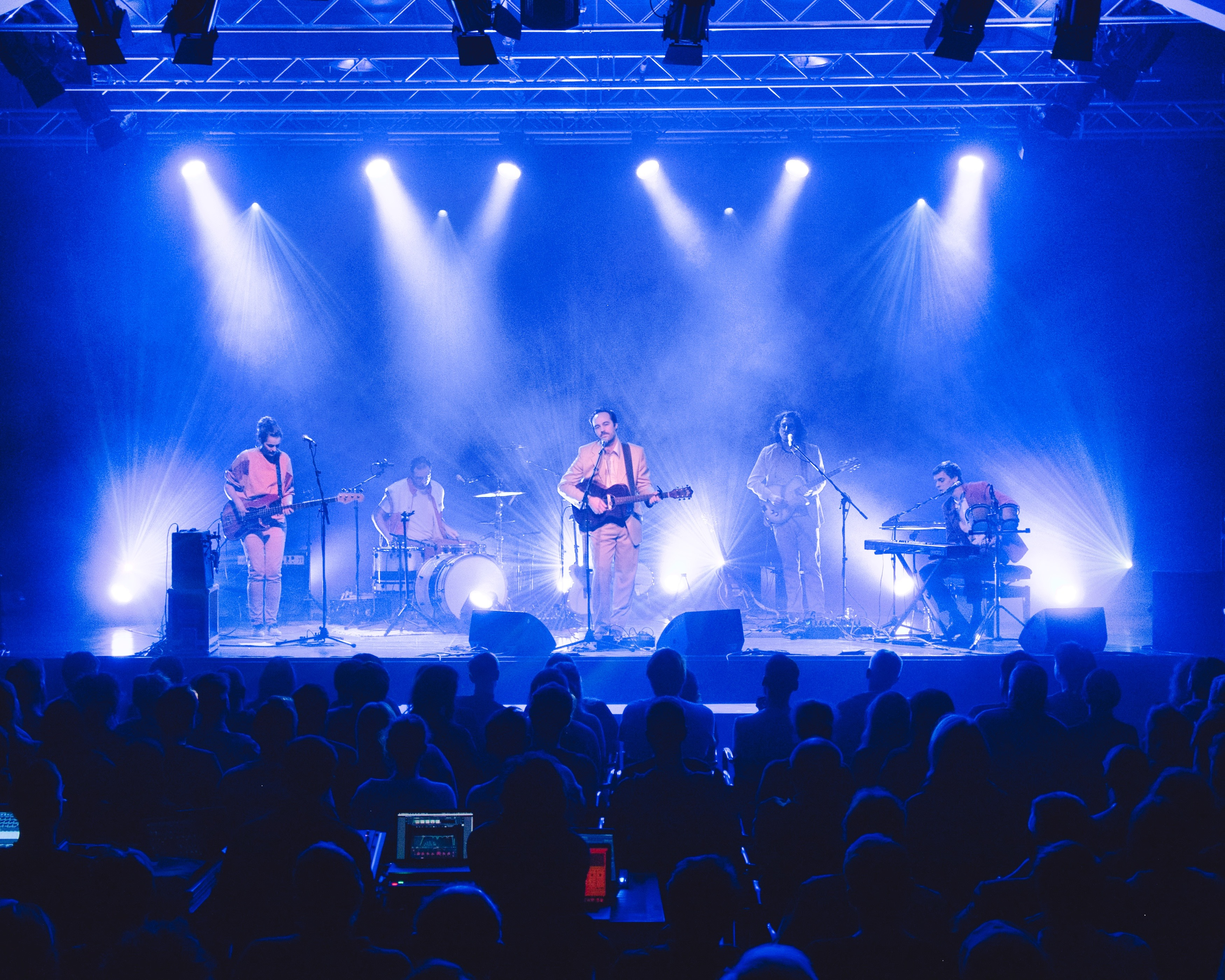 The Austrian band VIECH playing live at Wiener Konzerthaus (Vienna) 2019. On stage: Paul Plut (guitar, lead voice), Martina Stranger (bass), Christoph Lederhilger (drums), Maximilian Atteneder (keyboard), Markus Schneider (guitar).